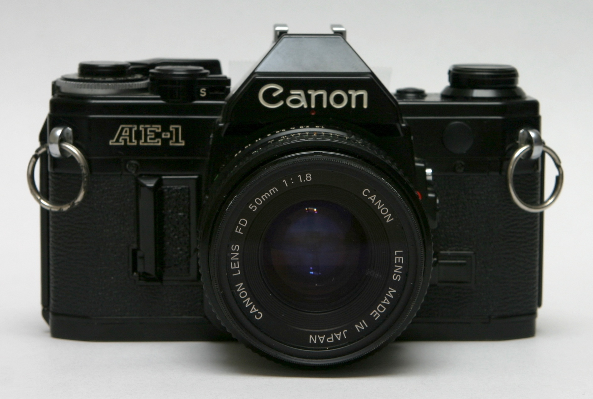 Black Canon AE-1 (1976) SLR camera with a 50mm f/1.8 lens